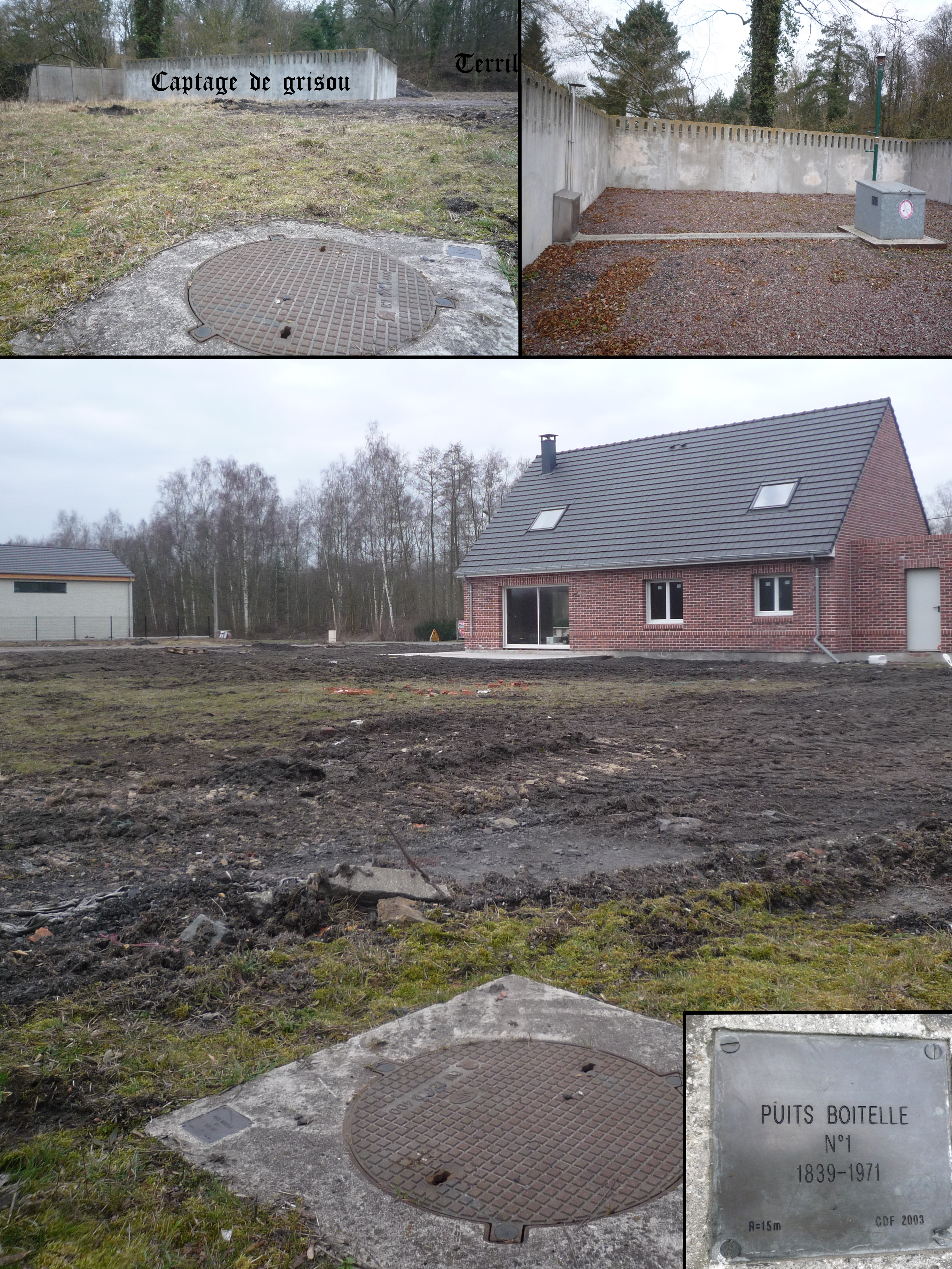 Pit of the Compagnie des mines de Vicoigne, Raismes, Nord, Nord-Pas-de-Calais, France.